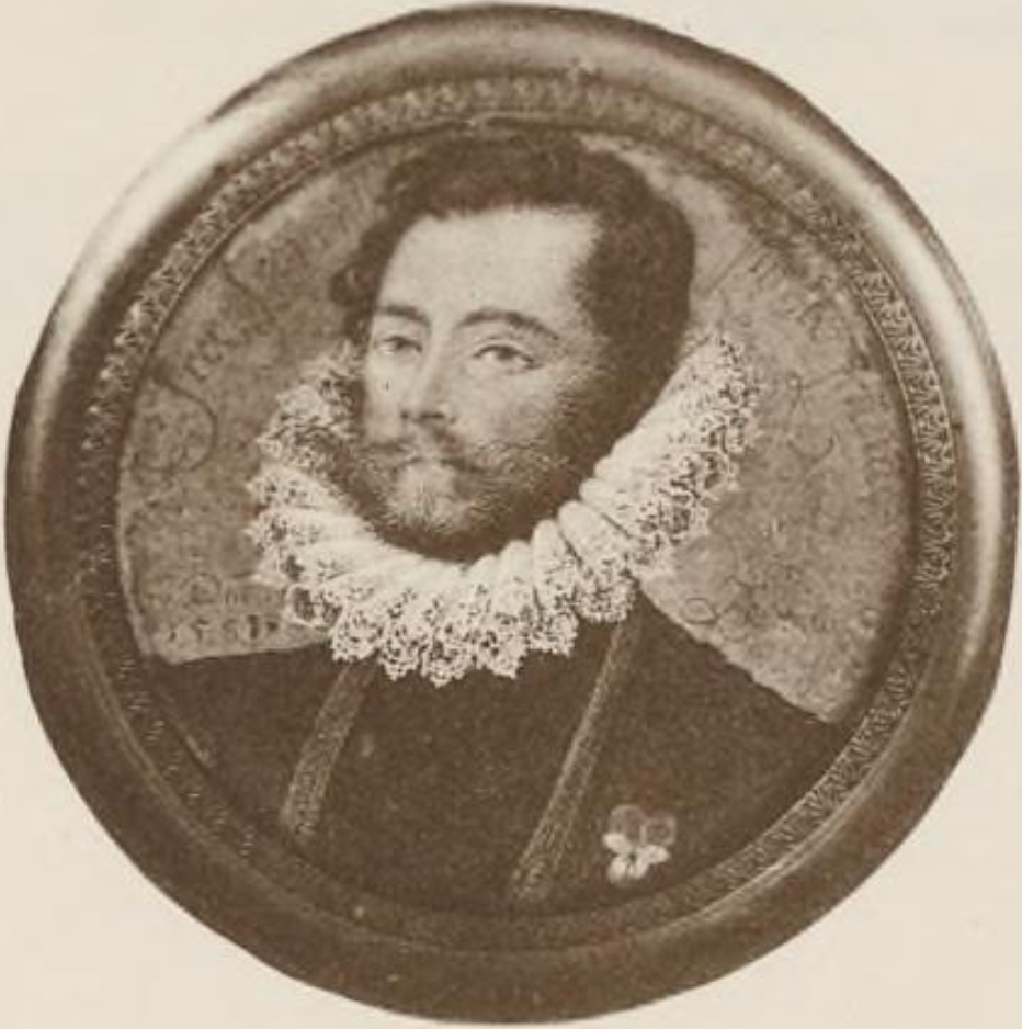 Miniature portrait dated 1581 by Isaac Oliver (c.1565-1617) of Sir George Cary (c. 1541 – 15 February 1616), of Cockington in the parish of Tor Mohun in Devon, Lord Deputy of Ireland from May 1603 to February 1604, a Member of Parliament for Dartmouth (1586) and for Devon (1588). Portrait inscribed "Free from all filthie fraude, Anno Domini 1581 aetatis suae 57" ("in the year of his age 57"). In 1920 the item was at Montagu House, Whitehall, property of John Montagu Douglas Scott, 7th Duke of Buccleuch (d.1935), per Fairfax Harrison, 1920.